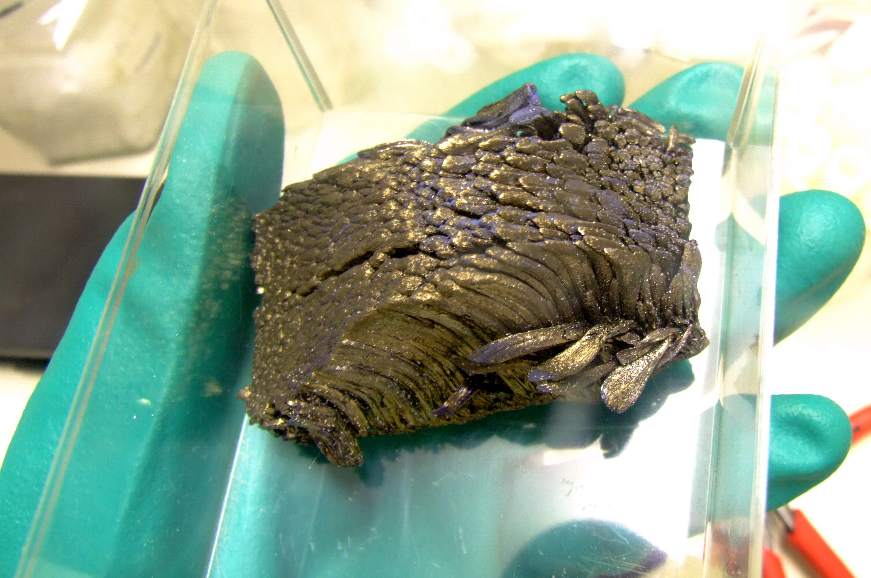 The chemical element Europium, ~300g ingot, crystalline sublimed dendritic, high pure 99.998% Eu/TREM (TREM = Total Rare Earth Metal). Handled in a glovebox under the inert gas argon.